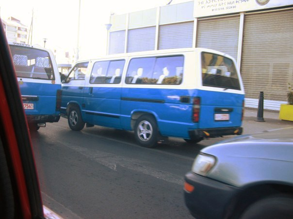 Bole Road, Addis Ababa.